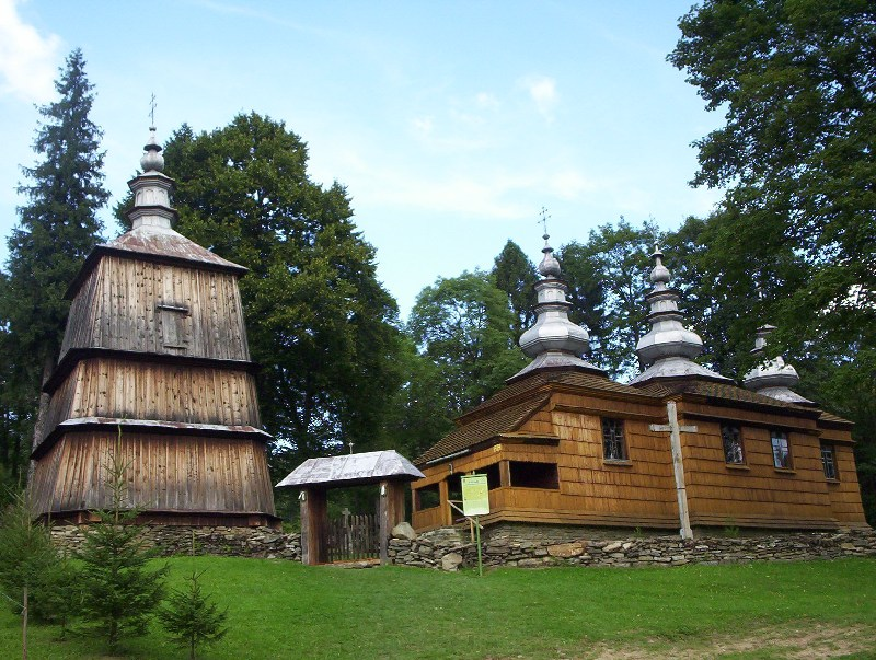 Greek catholic church (Eastern Lemko) and belfry in Rzepedź - Beskid Niski, Poland.